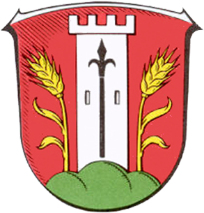 Coat of Arms of Frielendorf